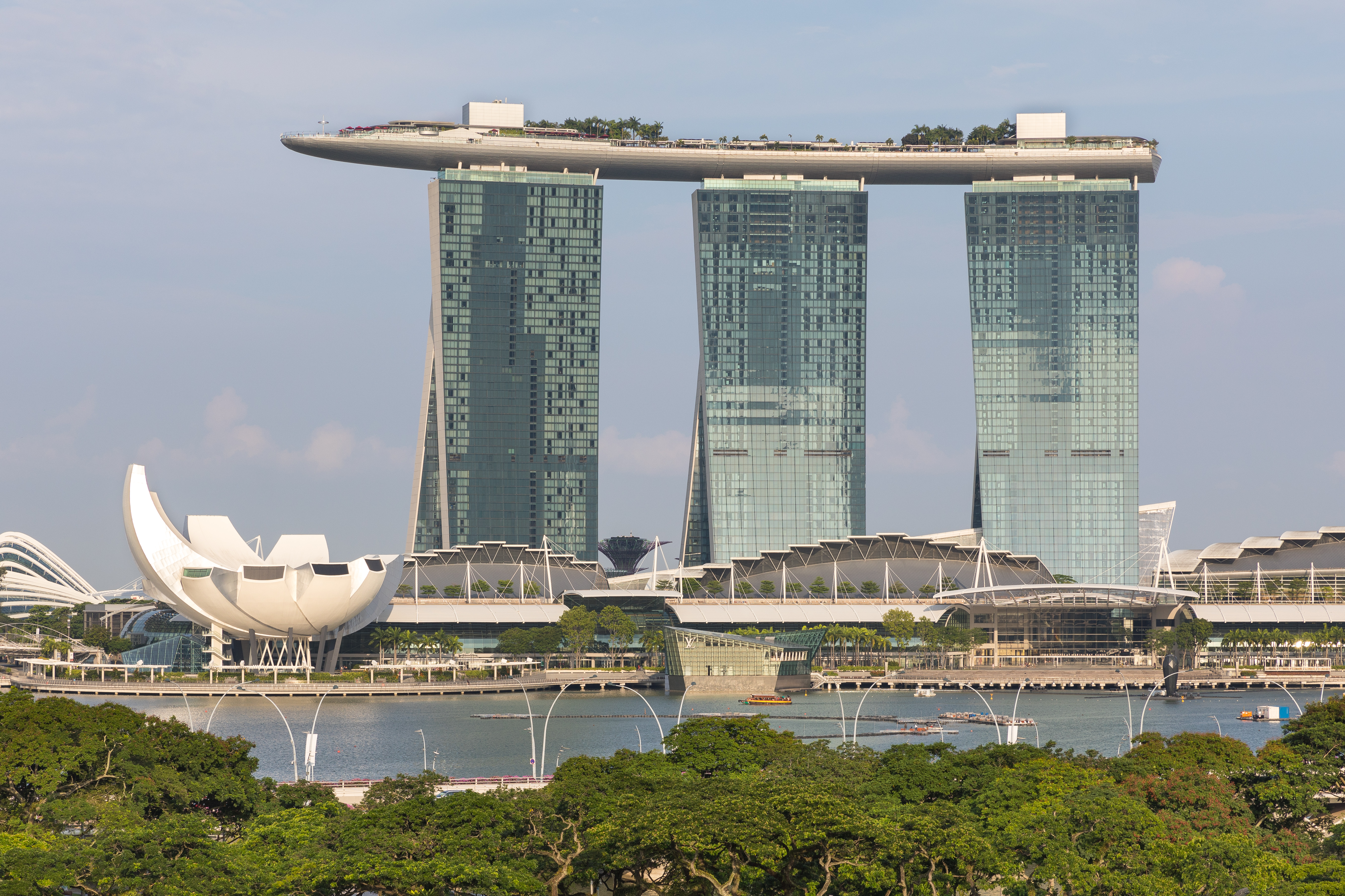 Marina Bays Sands Hotel and ArtScience Museum (architect : Moshe Safdie) with foreground trees, in late afternoon, Singapore